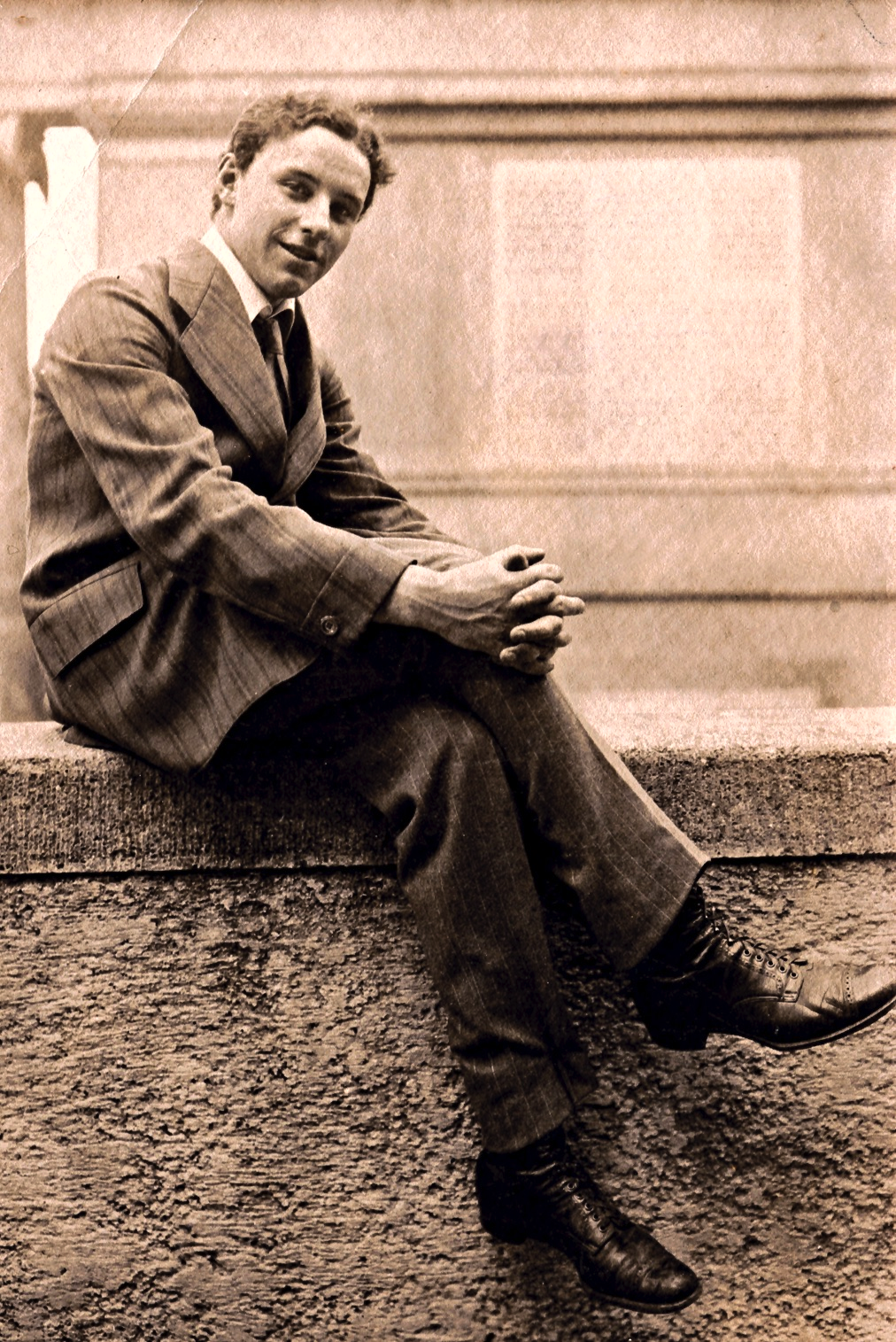 The geologist and cinematographer Arnold Heinrich Fanck was born on March 6, 1889 in Frankenthal, Rhine Circle, Germany. He died September 28, 1974 in Freiburg im Breisgau, Baden-Württemberg, Germany.